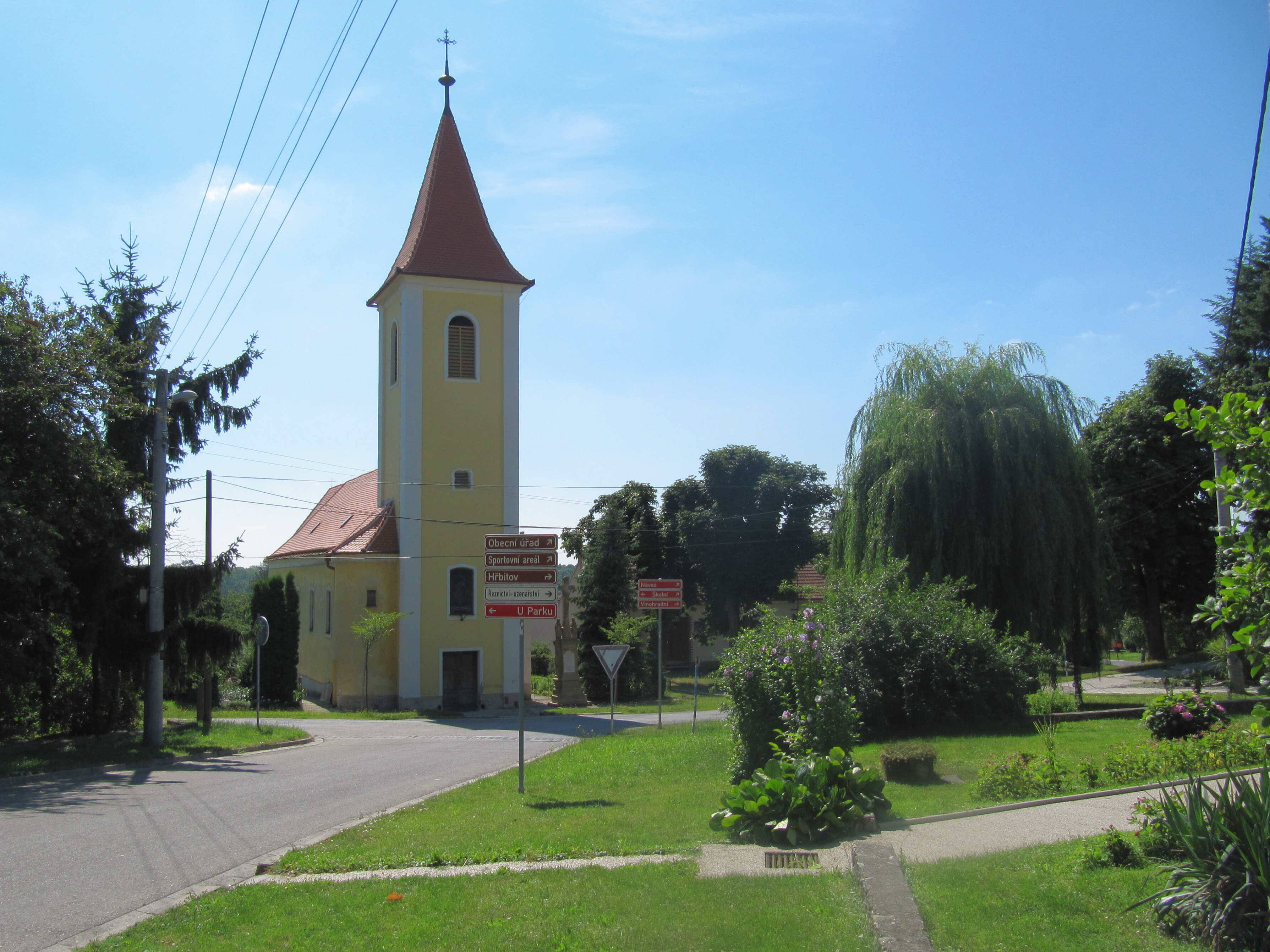 Týnec in Břeclav District, Czech Republic. Church of the Beheading of St. John the Baptist. This photograph was taken within the scope of the third year of the 'Czech Municipalities Photographs' grant.